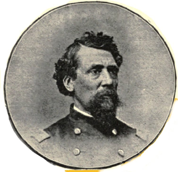 Portrait of General Thomas Allcock of the 4th New York Heavy Artillery who saw action in the American Civil War. Allcock invented Allcock Plasters which he sold to Benjamin Brandreth and subsequently partnered with Brandreth in Ossining, NY.